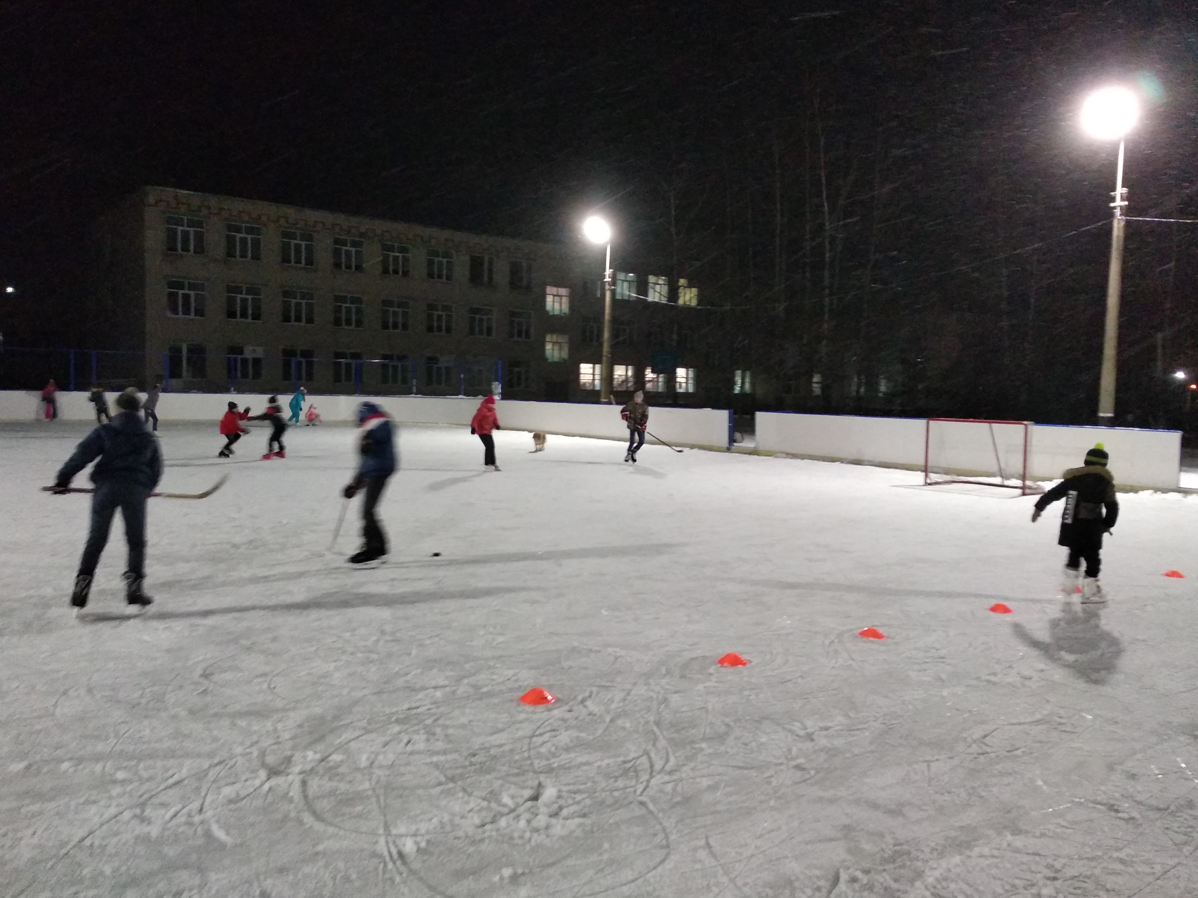 Shurskol skating & hockey rink with artificial lightning (photo february 2020)